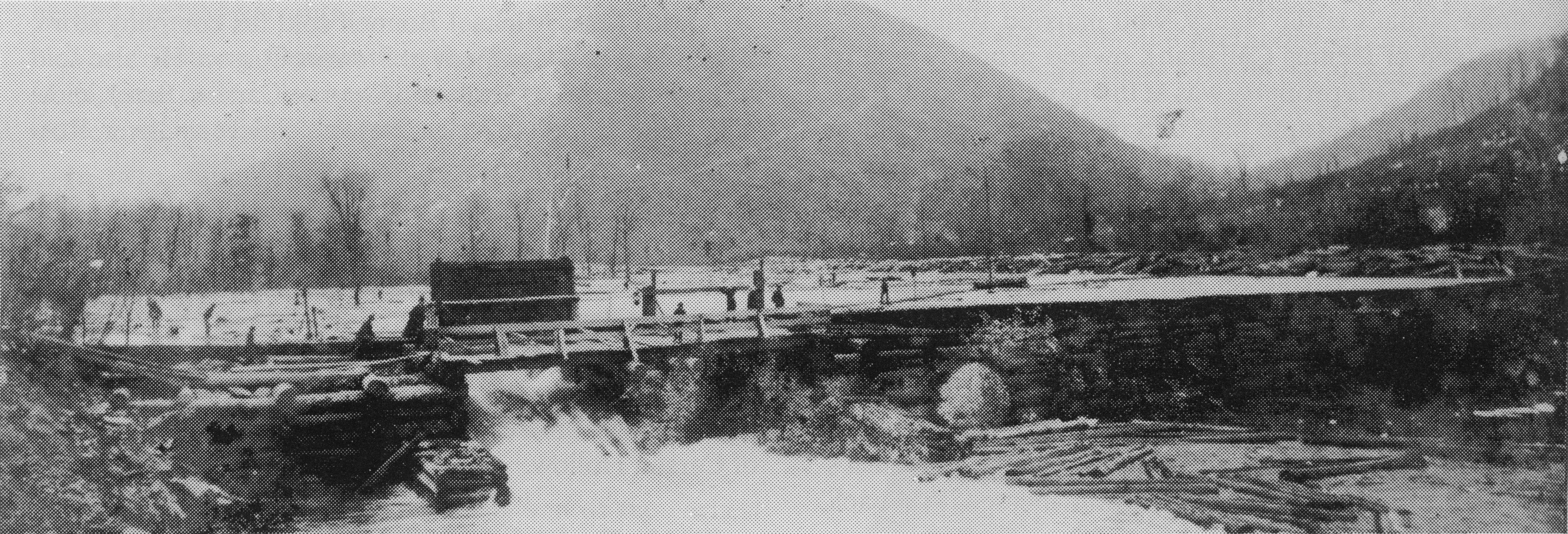 Splash dam on Otter Run, a tributary of Little Pine Creek in Lycoming County, Pennsylvania. The splash dam is being used to release water and float logs to Pine Creek, then the West Branch Susquehanna River and sawmills at Williamsport.